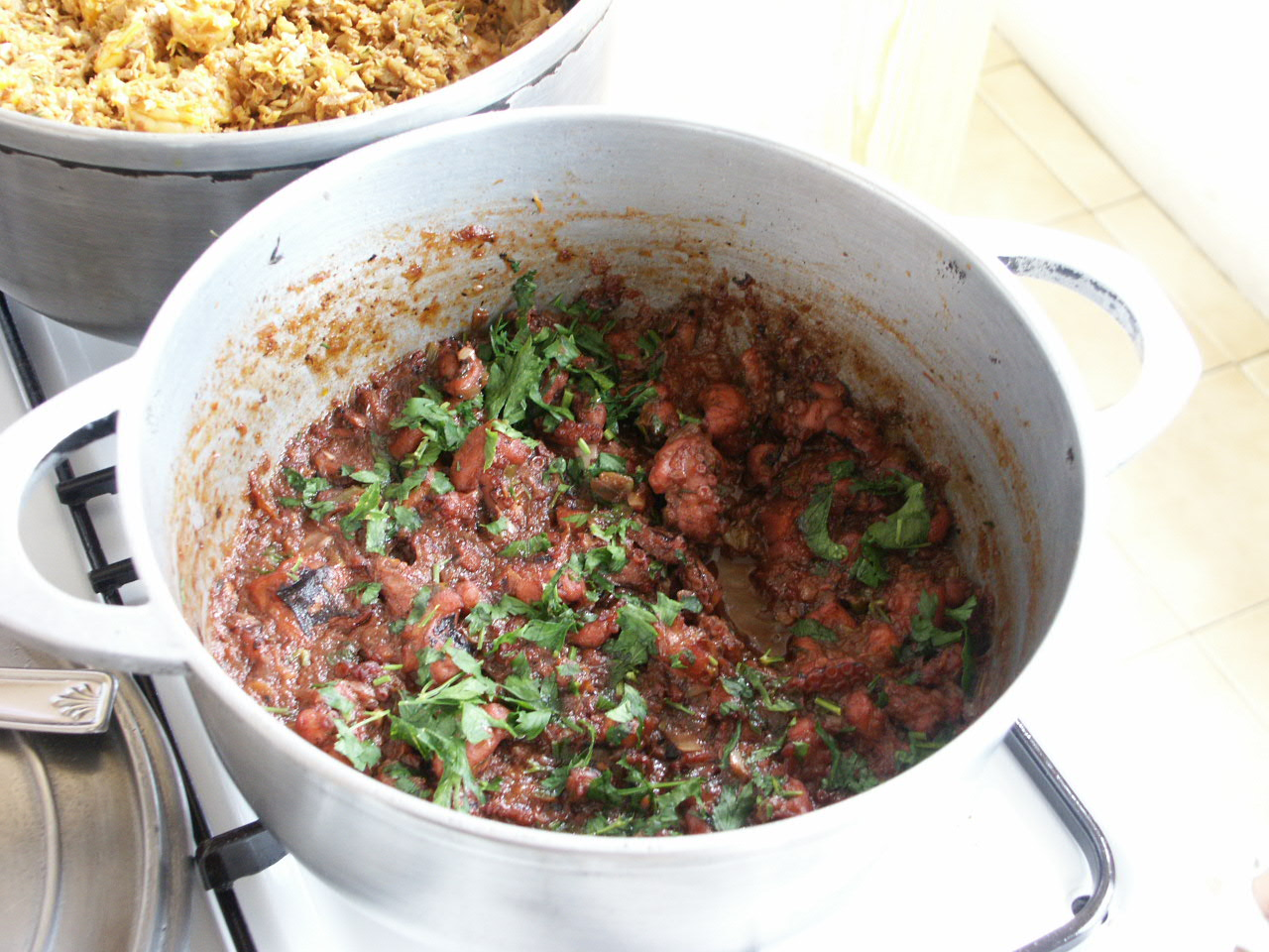 octopus ragout is a typical dish from the Ile de la Réunion